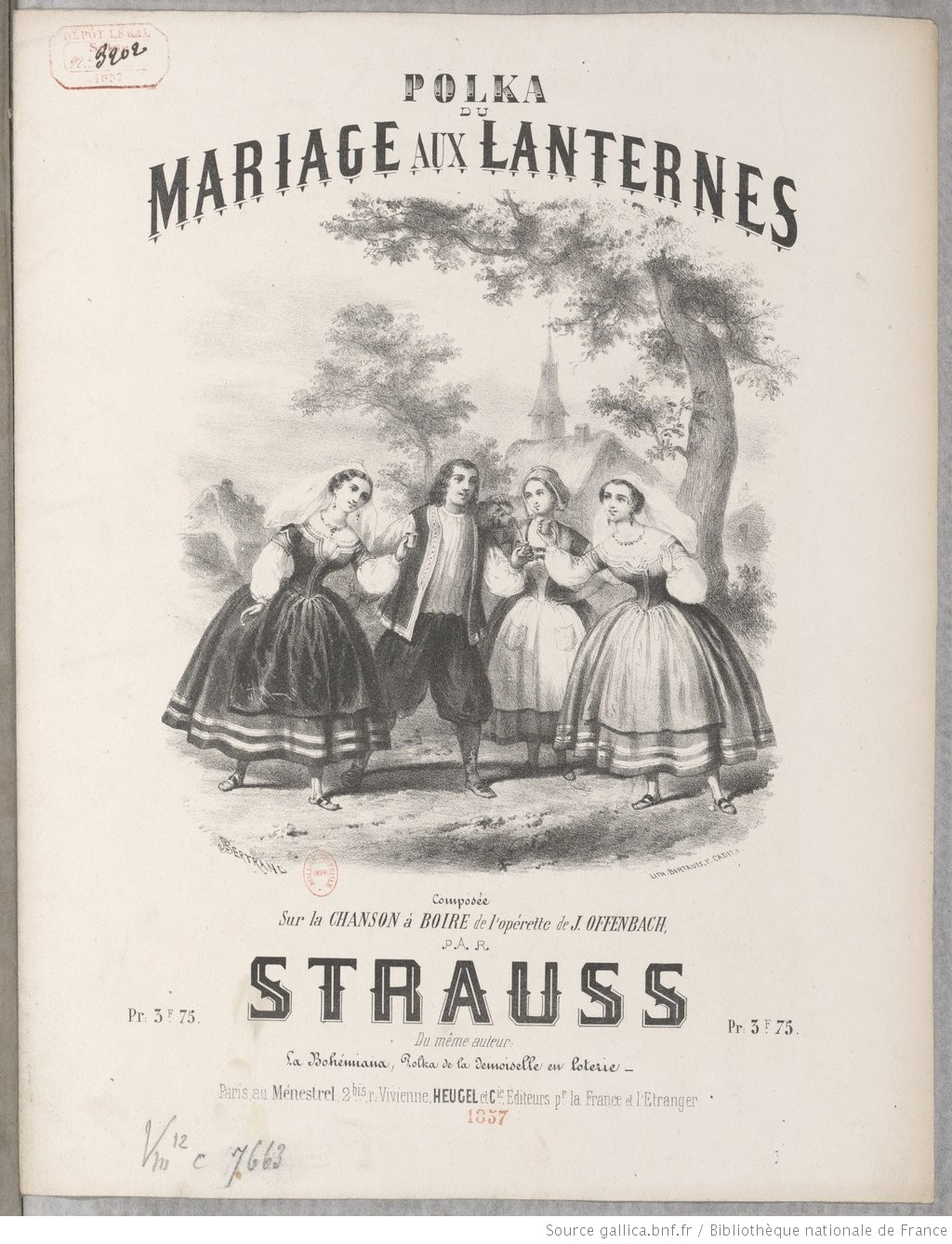 Polka on the brindisi quartet from "Le mariage aux lanternes" by Jacques Offenbach, arranged by Isaac Strauss, title page with lithography by (A.-V.) Bertrand